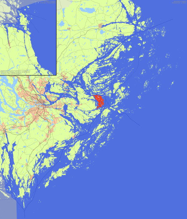 Location of the island Vindö (south part sometimes called Djurö)